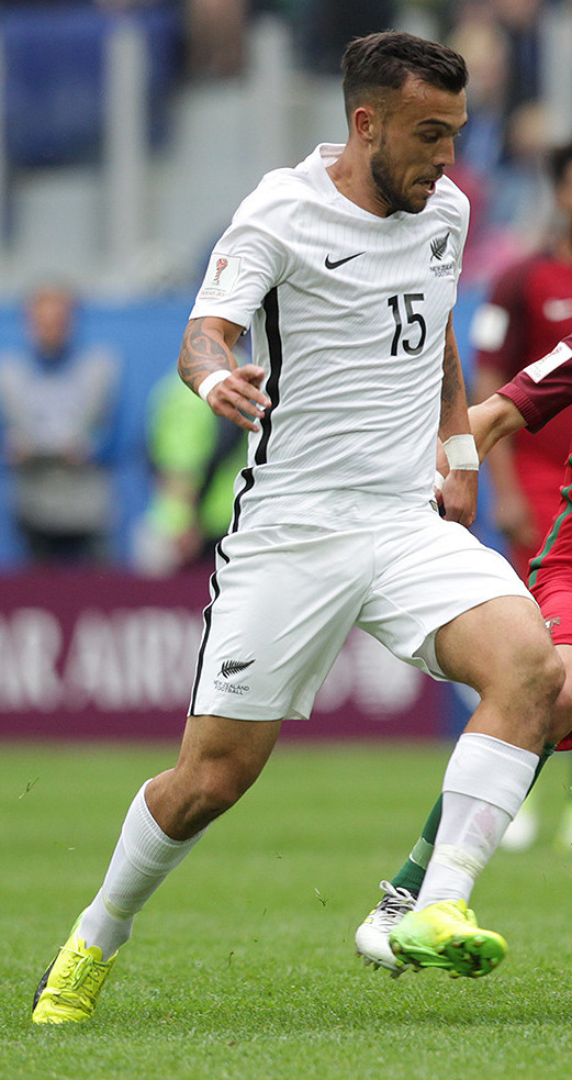 New Zealand VS. Portugal 0 - 4, 24 June 2017